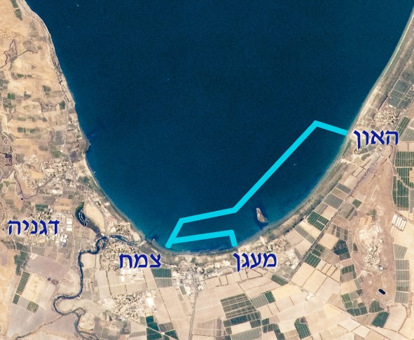 Israel’s largest freshwater lake, Lake Tiberias, is also known as the Sea of Tiberias, Lake of Gennesaret, Lake Kinneret, and the Sea of Galilee. The lake measures just more than 21 kilometres north-south, and it is only 43 meters deep. The lake is fed partly by underground springs related to the Jordan sector of the Great Rift Valley, but most of its water comes from the Jordan River, which enters from the north. The river’s winding course can be seen draining the south end of the lake at image bottom. Angular green and brown field patterns clothe most hillsides in this arid landscape. Bright roof tops are the hallmark of several villages in the area. The largest grouping of bright roofs and city blocks indicates the location of Tiberias (named for the Roman Emperor Tiberius), visible at image left on the south-western shore of the lake.